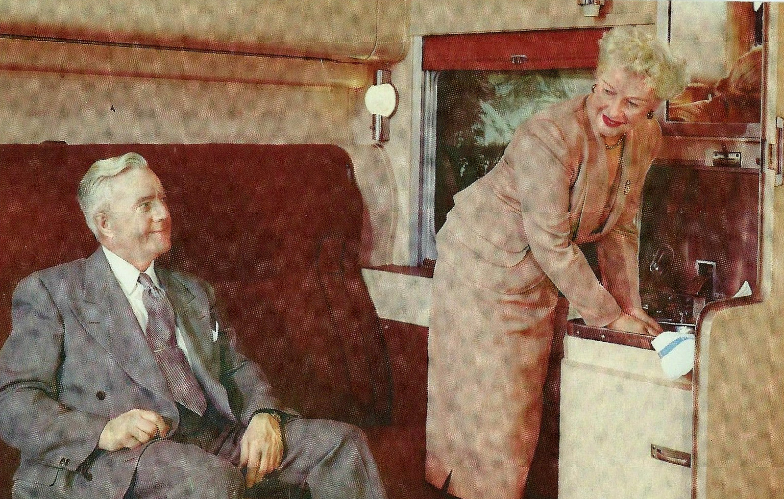 Postcard photo of a Pullman compartment on the Union Pacific Railroad.